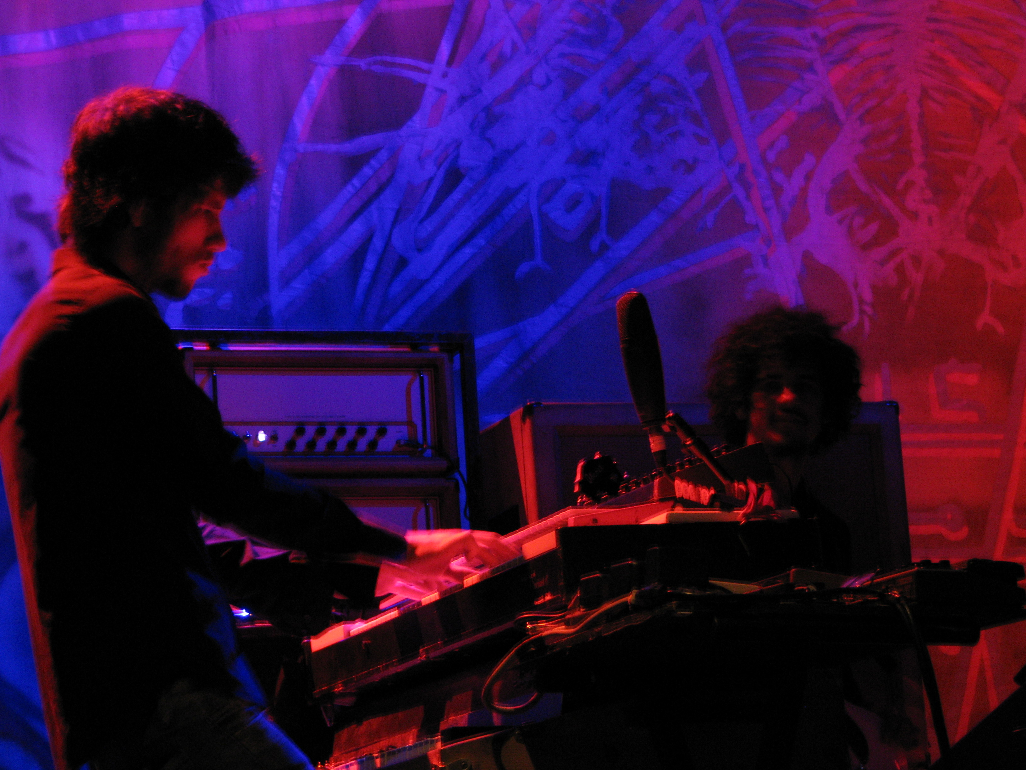 Marcel Rodriguez-Lopez, a multi-instrumentalist for the Mars Volta, performing in the Roy Wilkins Auditorium in St. Paul, MN.